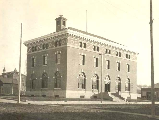 Moscow, Idaho U.S. Post Office and Courthouse (n.d., ca. 1911) Completed in 1911. Supervising Architect: James Knox Taylor Building used by the U.S. District Court for the District of Idaho. Now Moscow City Hall.